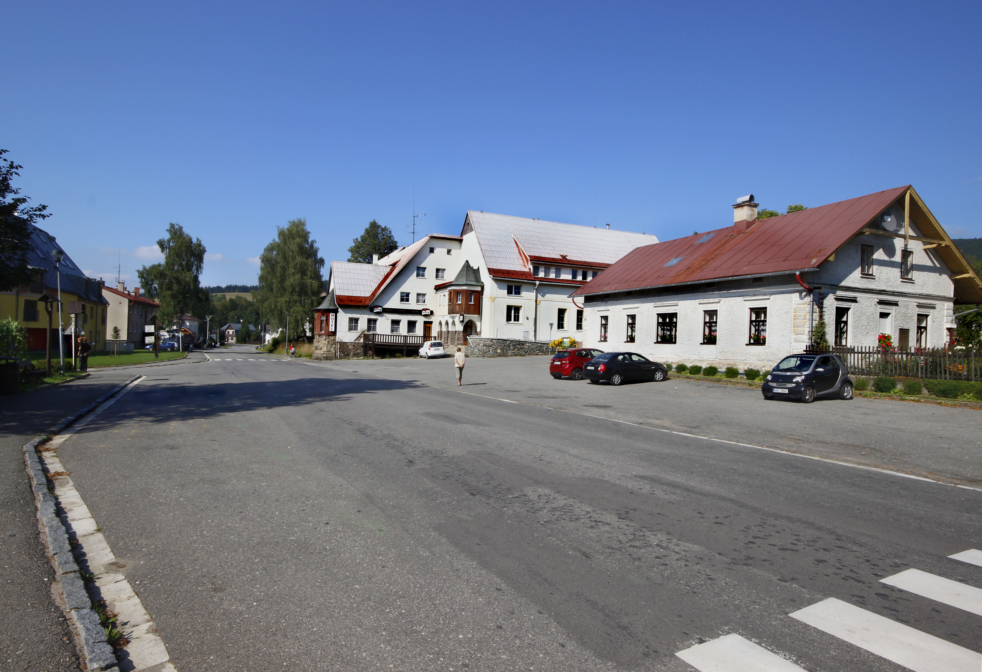 Upper part of Deštné v Orlických horách, Czech Republic